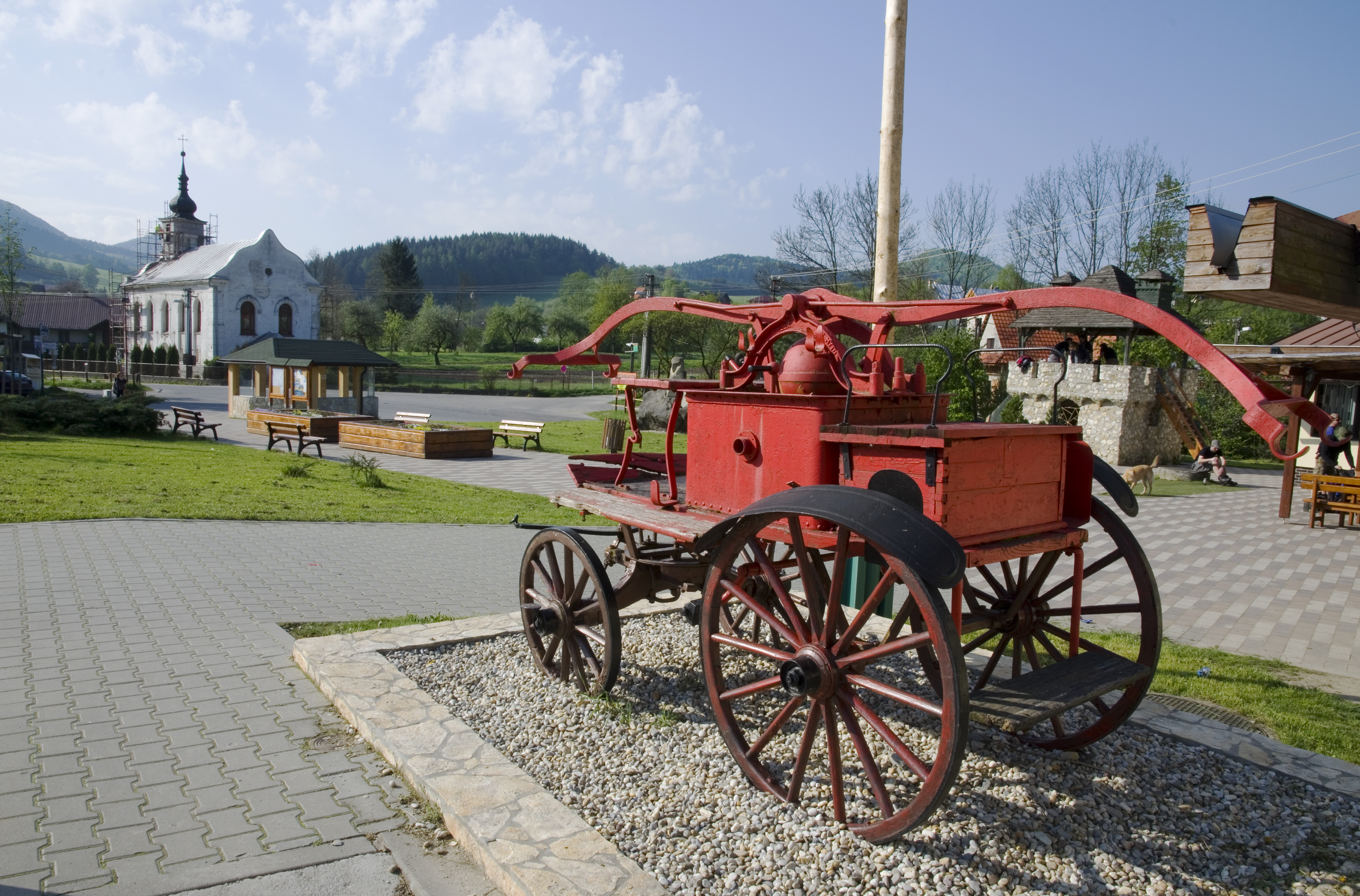 Súľov-Hradná village - center in Súľov , Slovakia